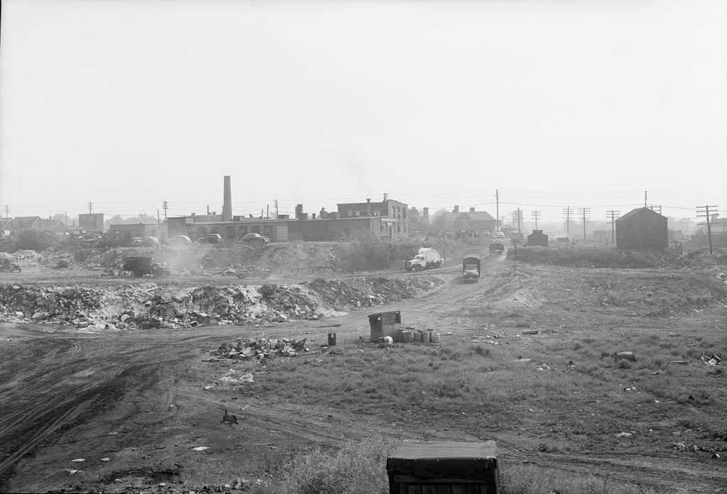 Harper's Dump, also known as the Greenwood Avenue Fill, was one of the main landfill sites in Toronto, Ontario, Canada. In the 1960s, it was replaced by the Greenwood TTC subway yard.